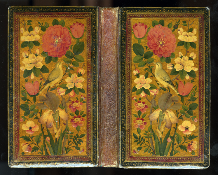 Binding of a Divan of Hafiz, April 5 1842, Iran. "Original lacquer “gul-u-bulbul” (flower-nightingale) motif with gold, red, and black decorative frame... The metaphorical relationship of the nightingale (active lover) and flower (passive beloved) frequently utilized in Persian poetry, especially by Hafiz, thus serves as an appropriate theme for the binding covering this manuscript." See source for more information.